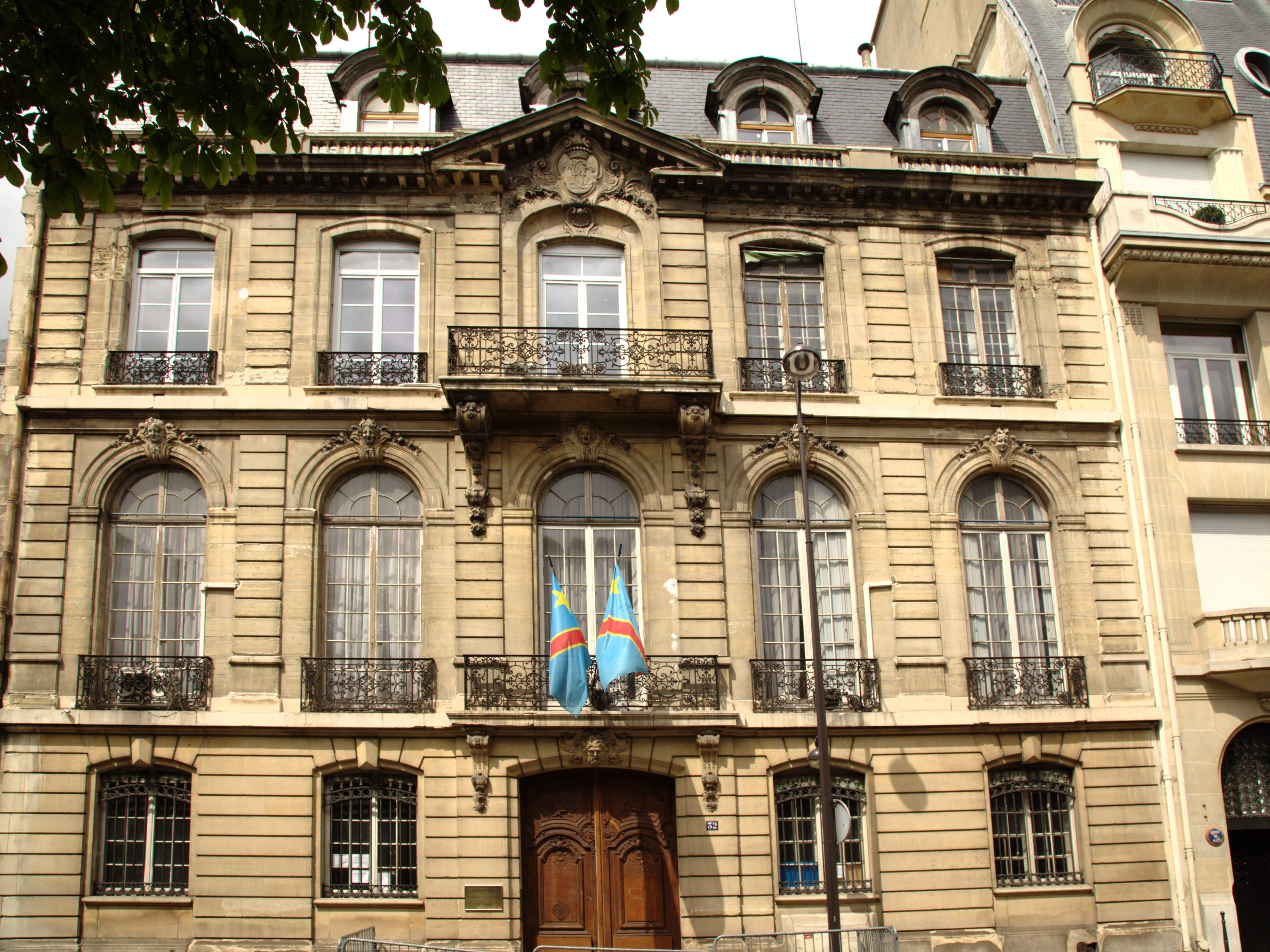 32 Albert-1er, Paris - The Embassy of the DRC to France